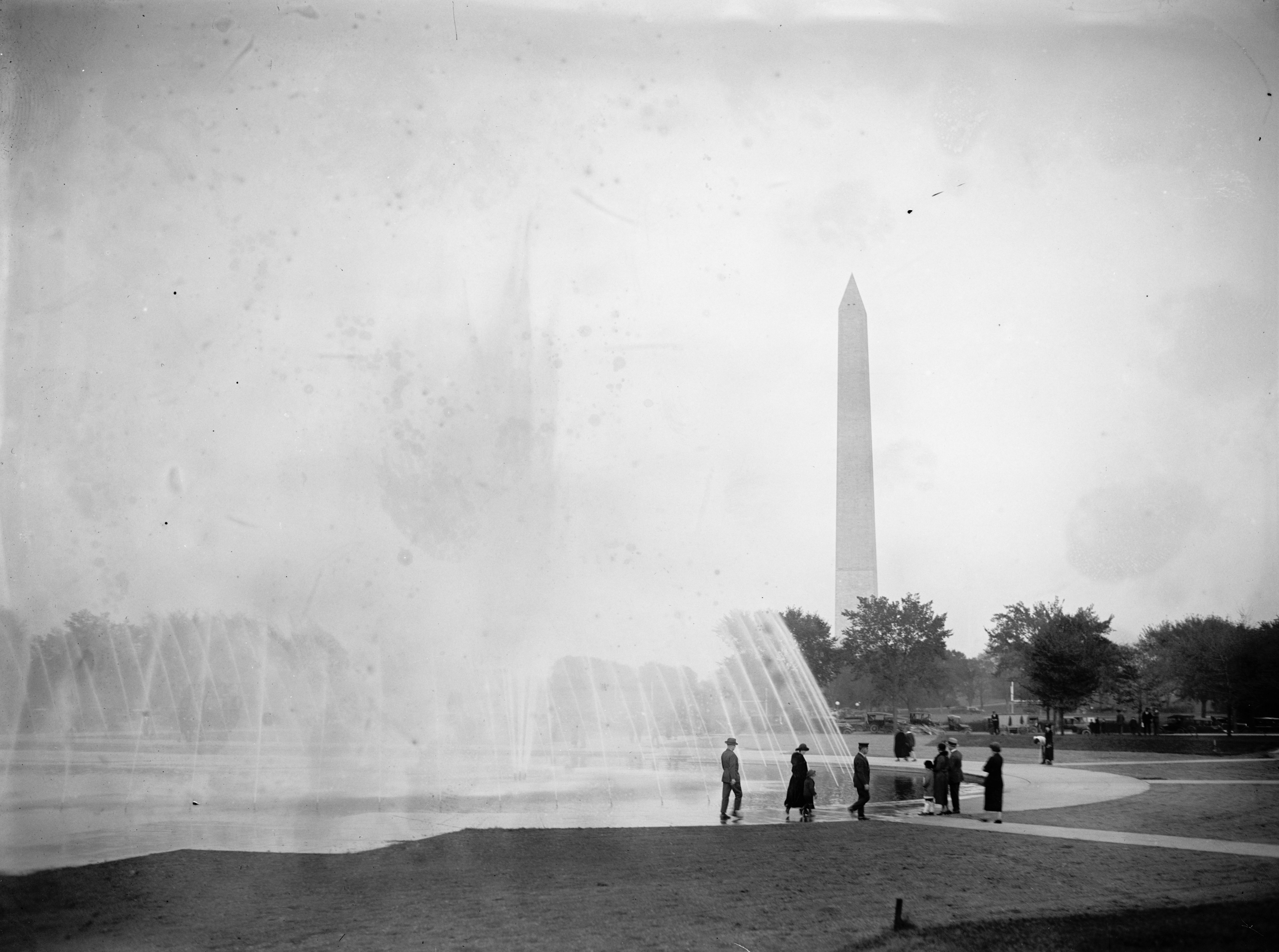 Call Number: LC-F81- 32945 [P&P] Repository: Library of Congress Prints and Photographs Division Washington, D.C. 20540 USA